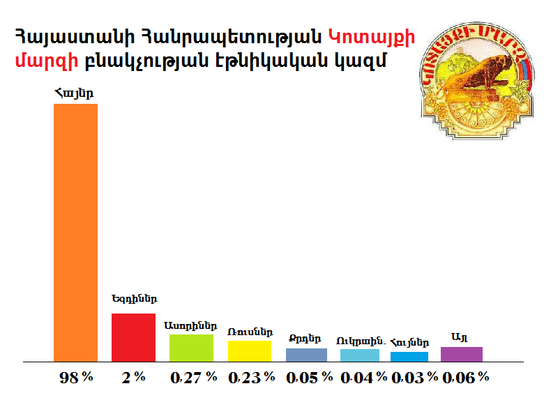 population of Kotayk